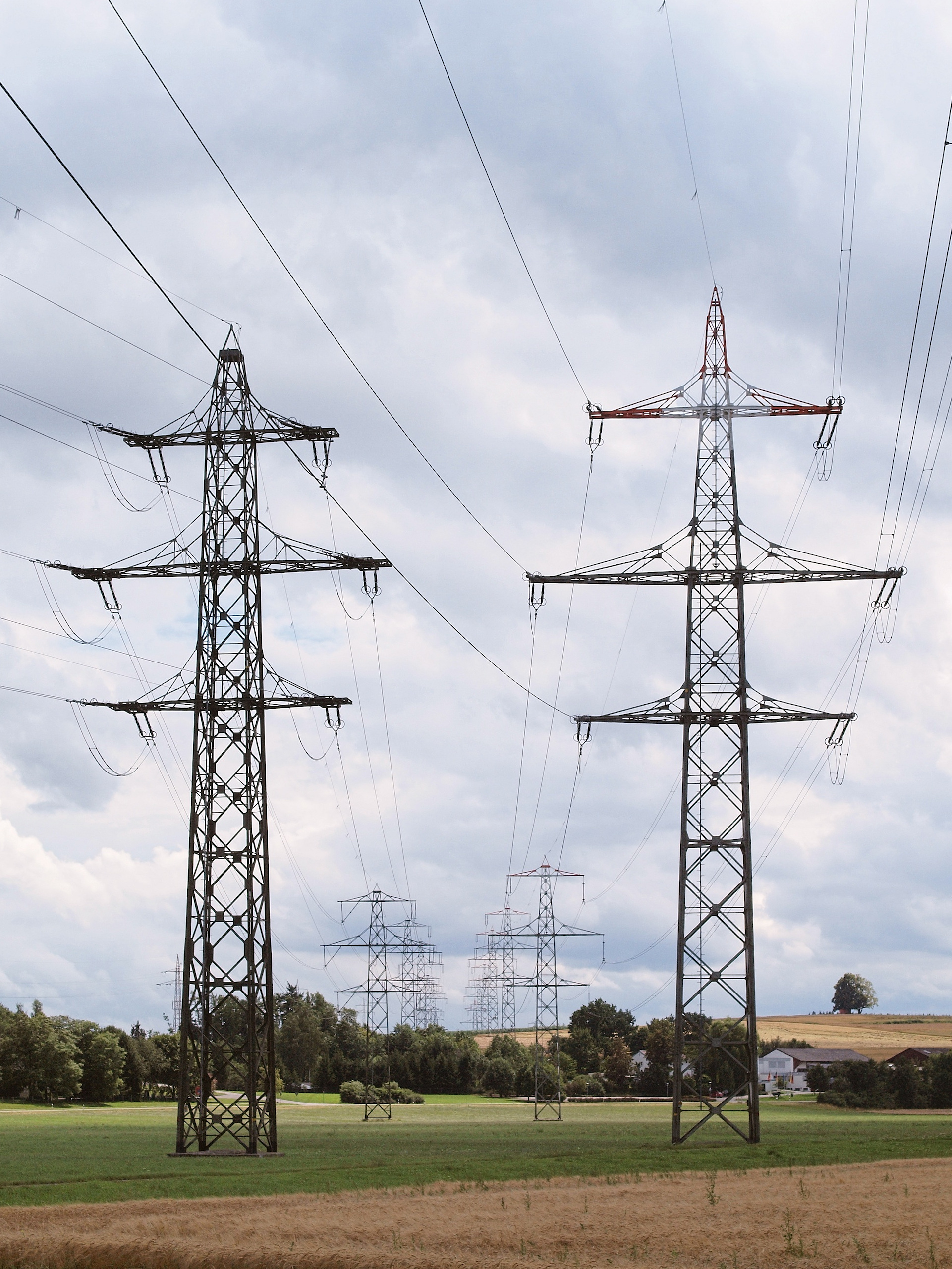 The two southern forks of the Nord-Süd-Leitung south of the Herbertingen substation